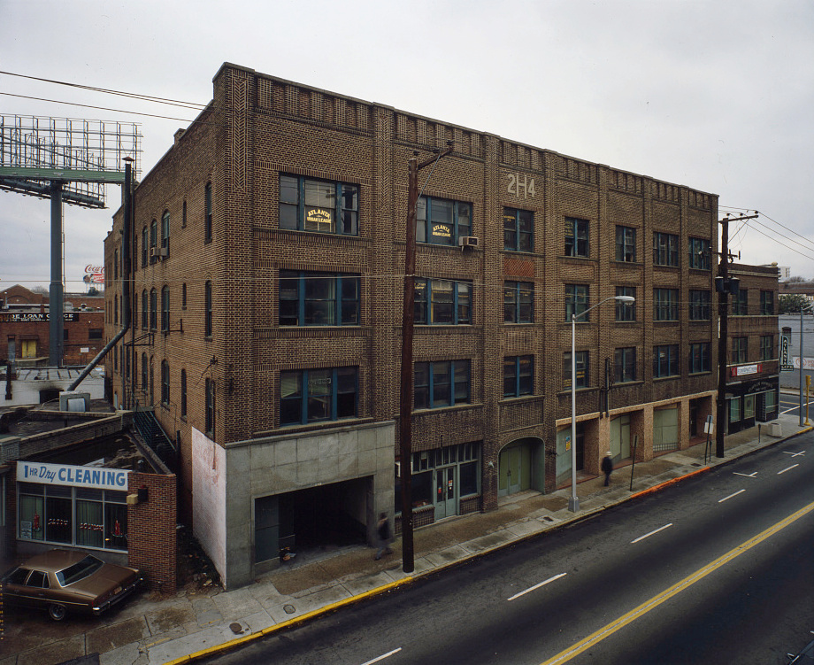 Herndon Building (1924 to 2008) on Auburn Avenue in Atlanta, Georgia